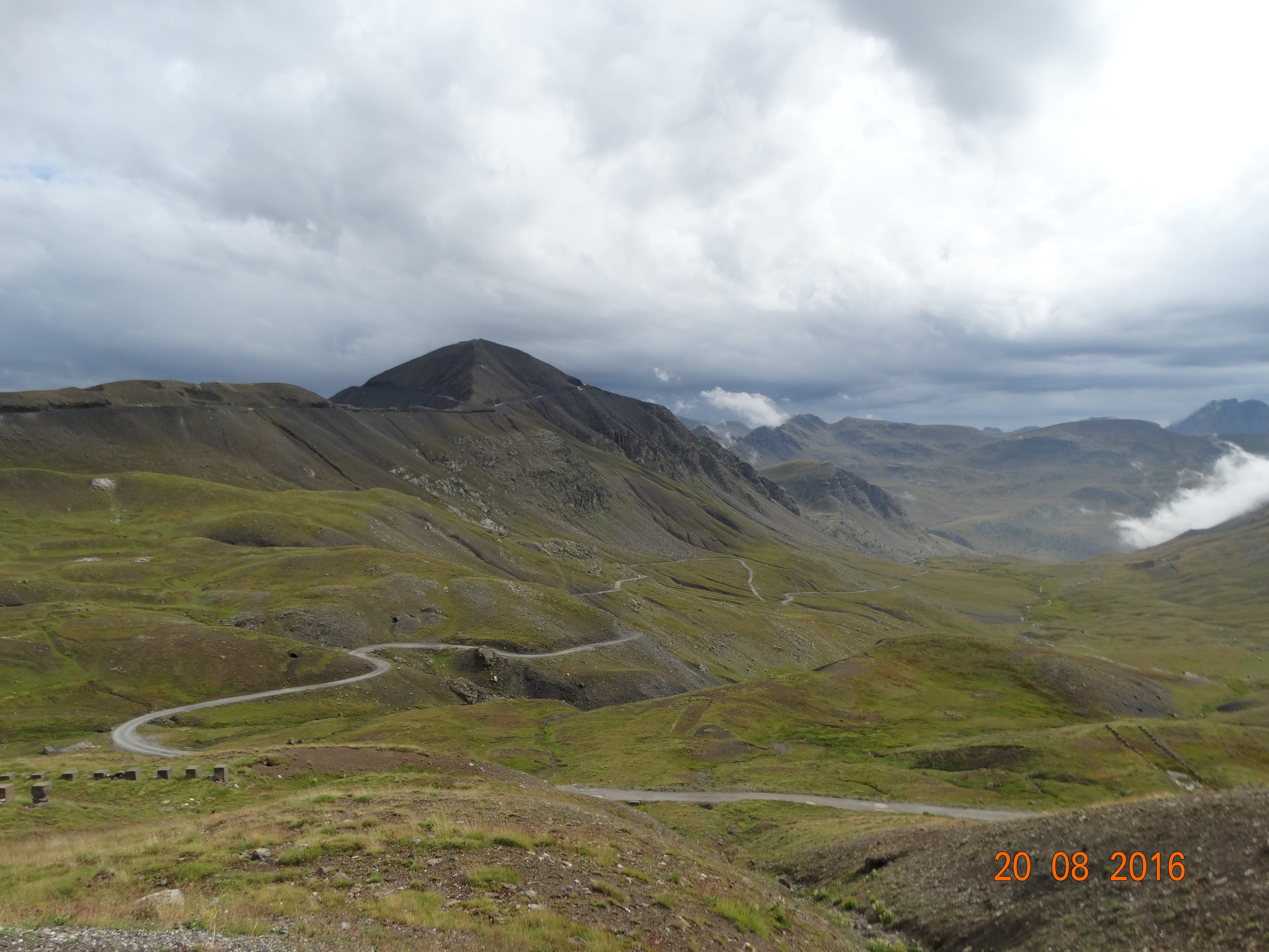 Col de la Bonette